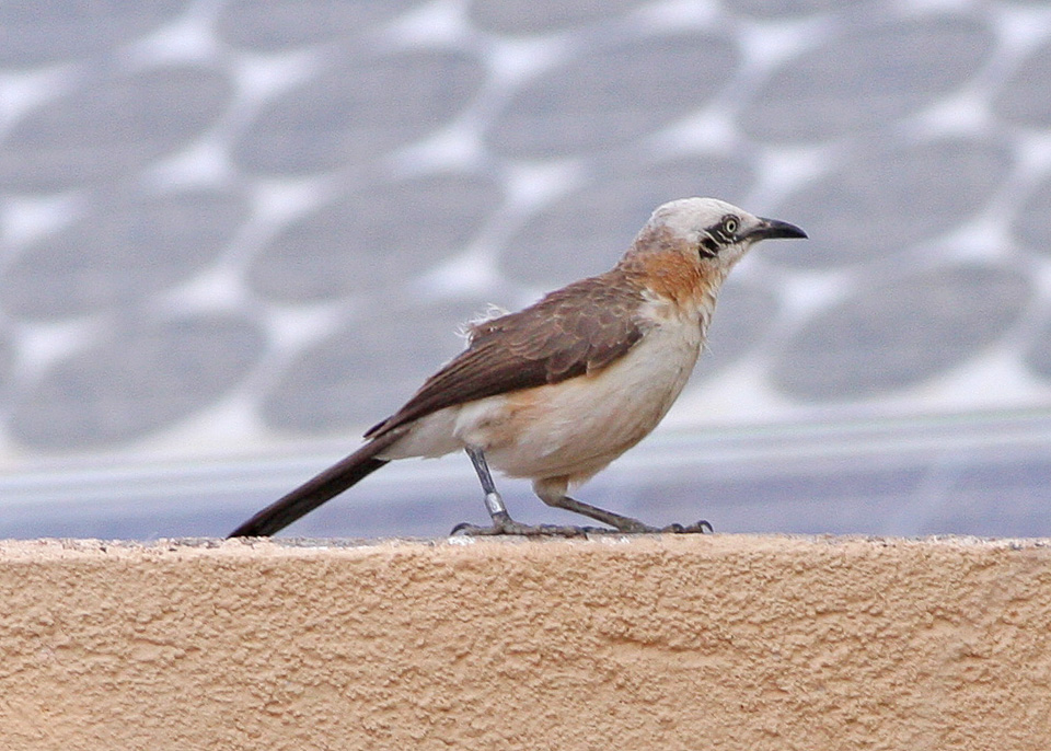 Bare-cheeked Babbler (Turdoides gymnogenys) at Hobatere, Namibia